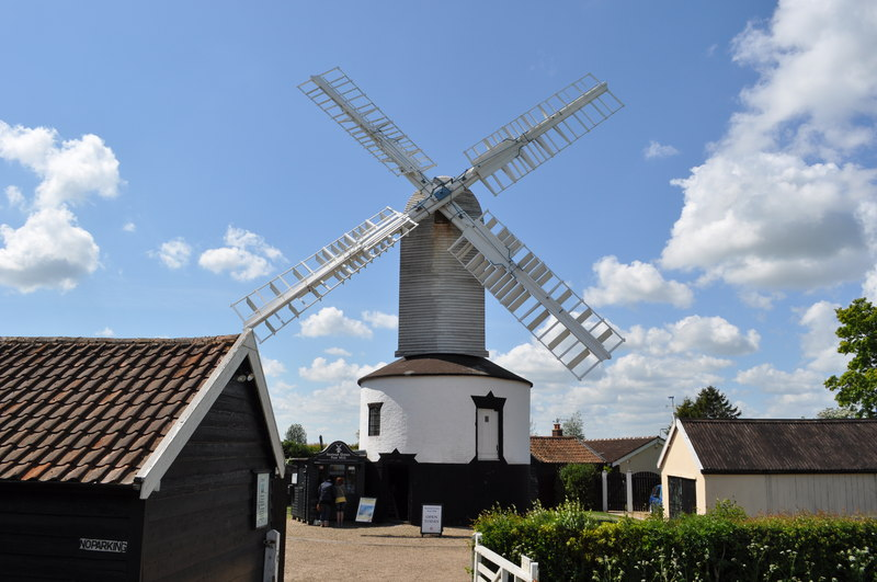 Saxstead Green Postmill, near to Saxtead Green, Suffolk, Great Britain. Saxstead Green mill is a 3 storey post mill in the care of English Heritage. It dates from at least 1796; after tailwind damage c1853 the roundhouse was raised (3rd time) and modernised with cast iron machinery (brake wheel is oak) by Whitmore and Binyon in 1854. The raising was to accommodate two extra engine driven stones as well as other machines like flour dressers. The engine was at first steam but later oil. The mill ceased working commercially on the death of the last miller in 1947. The site has been conserved, the patent sails still turn but the stone nuts are not connected to the spur wheel. Link See other images of Saxstead Green Postmill